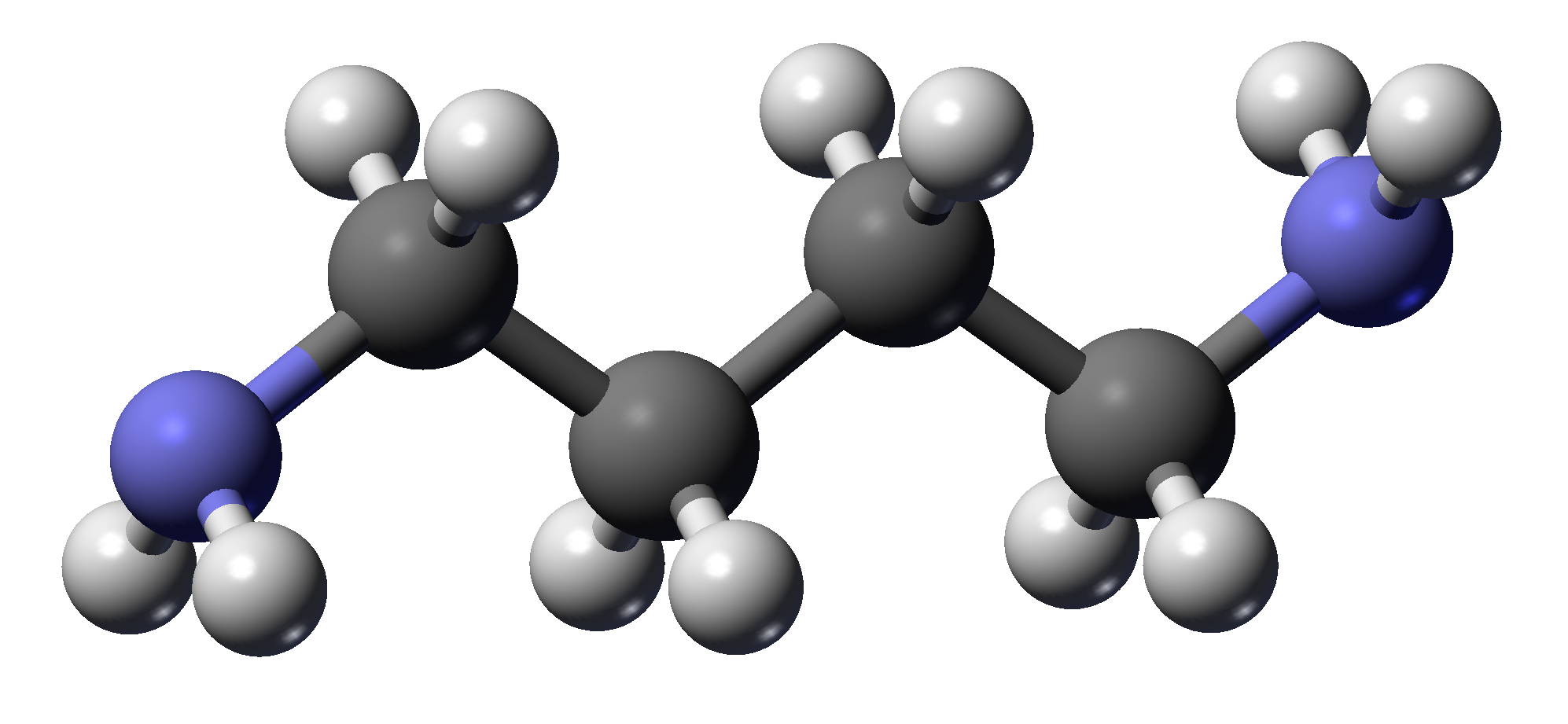 3D stick-and-ball model of putrescine molecule. Prepared using Discovery Studio Visualizer 1.7 and GIMP 2.2